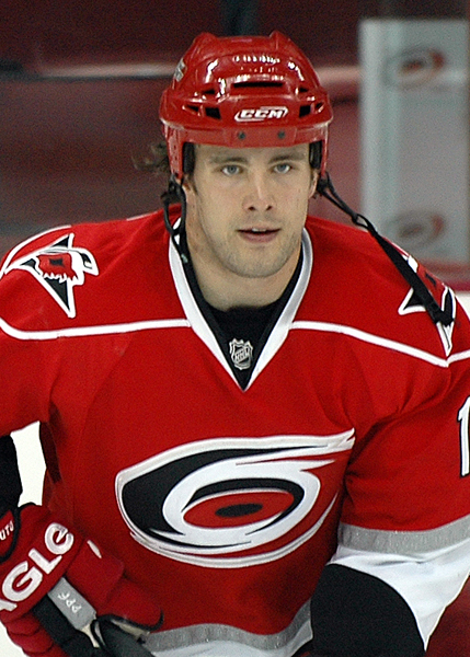 Tuomo Ruutu of the Carolina Hurricanes skates during warmups before a game versus the New Jersey Devils on March 18, 2009.